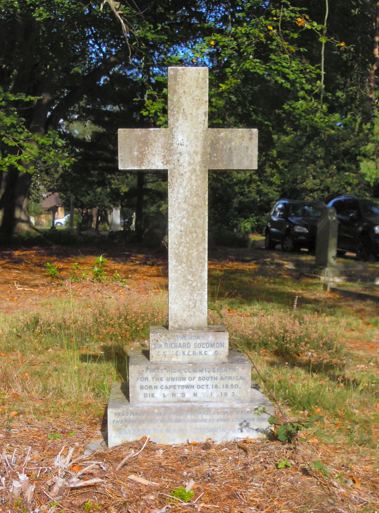 The grave of Richard Solomon (Attorney General) in Brookwood Cemetery